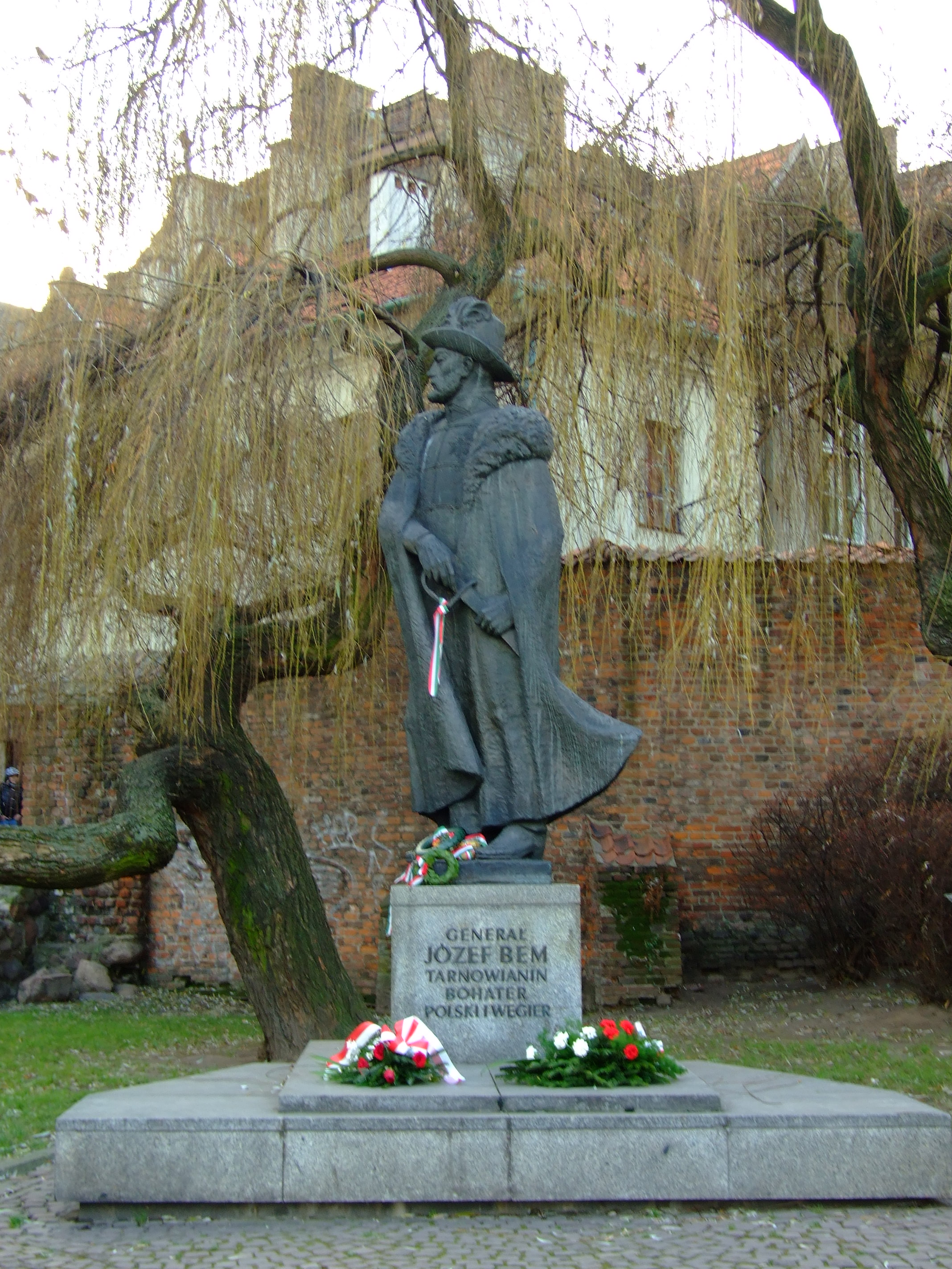 Józef Bem memorial in Tarnów, Lesser Polish Voivodship, Polandhelp